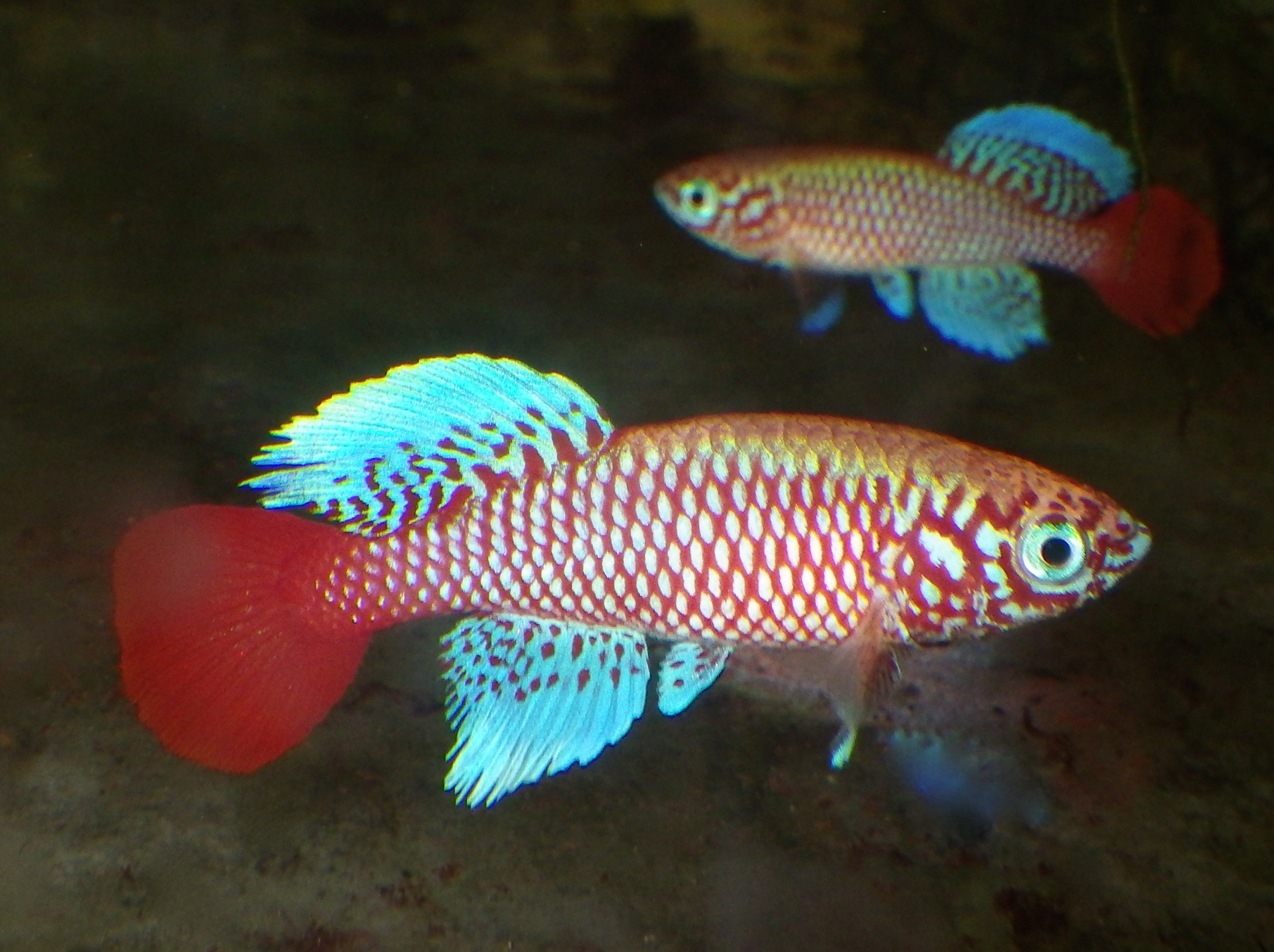 Male Nothobranchius kilomberoensis with a second smaller male in the background